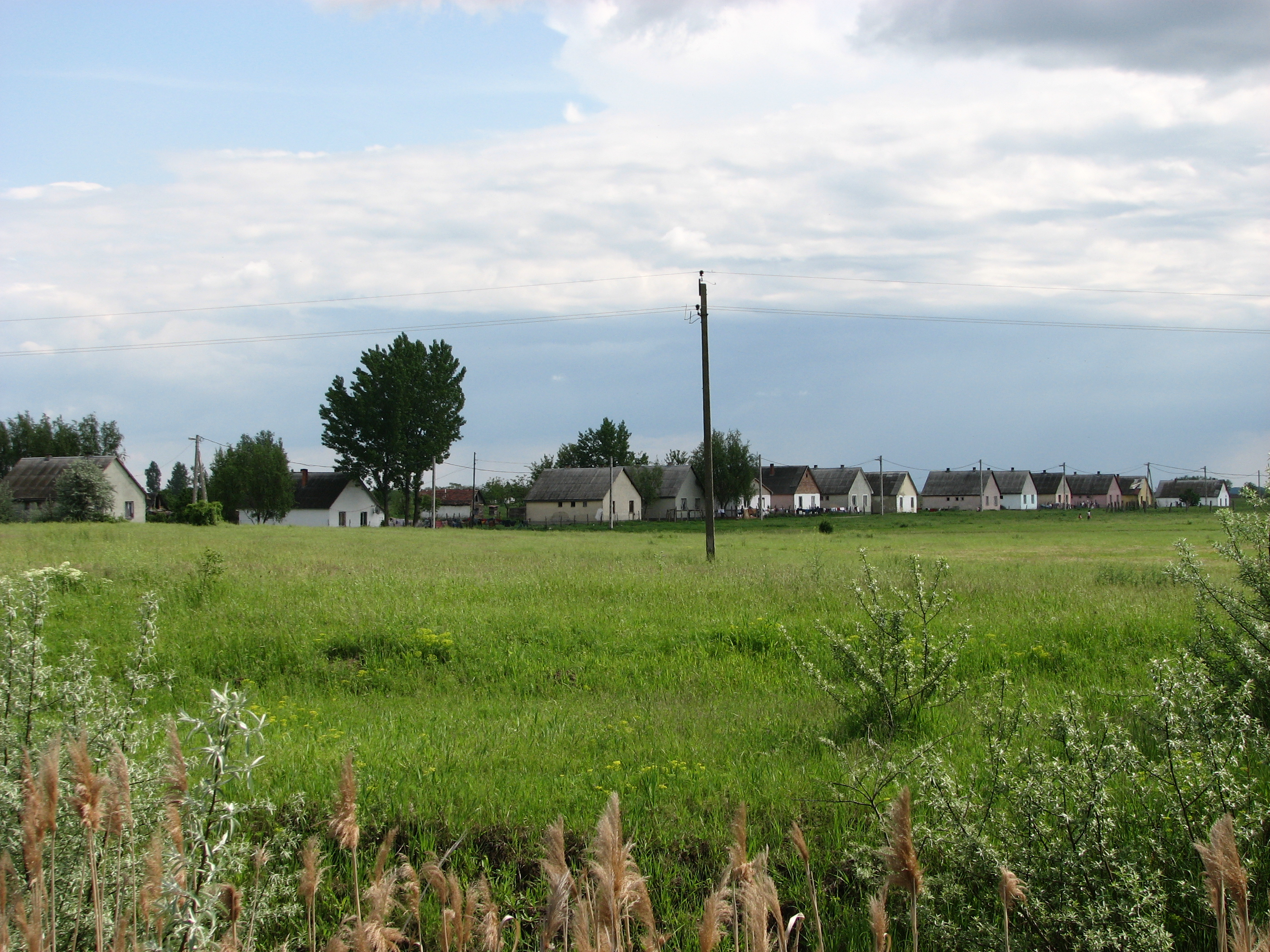 The view of the Sándor Balogh street not far from the Eastern end of Hajdúdorog, Hungary. This street has got 14 houses right now that was built on the place of the Gypsies' camp close to the town. Approximately 90 Gypsies are living in this part of Hajdúdorog amongst rather poor circumstances.